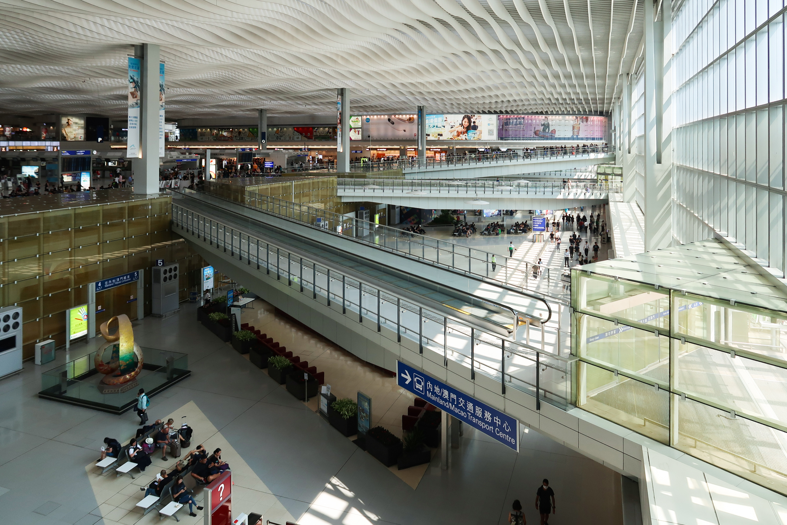 Hong Kong International Airport Terminal 2